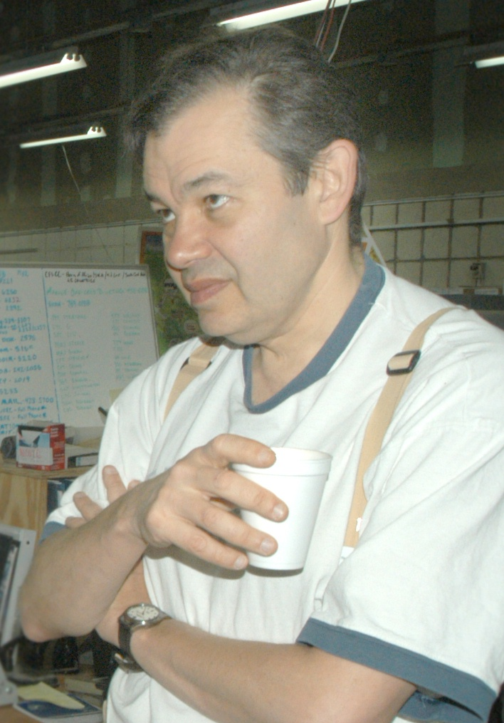 CAMP DOHA, Kuwait (April 7, 2003) - Michael Gordon (far right), a New York Times reporter embedded with Coalition Forces Land Component Command at Camp Doha, Kuwait, listens to fellow reporters on the events of the day. Gordon is covering Operation Iraqi Freedom from a headquarters level.